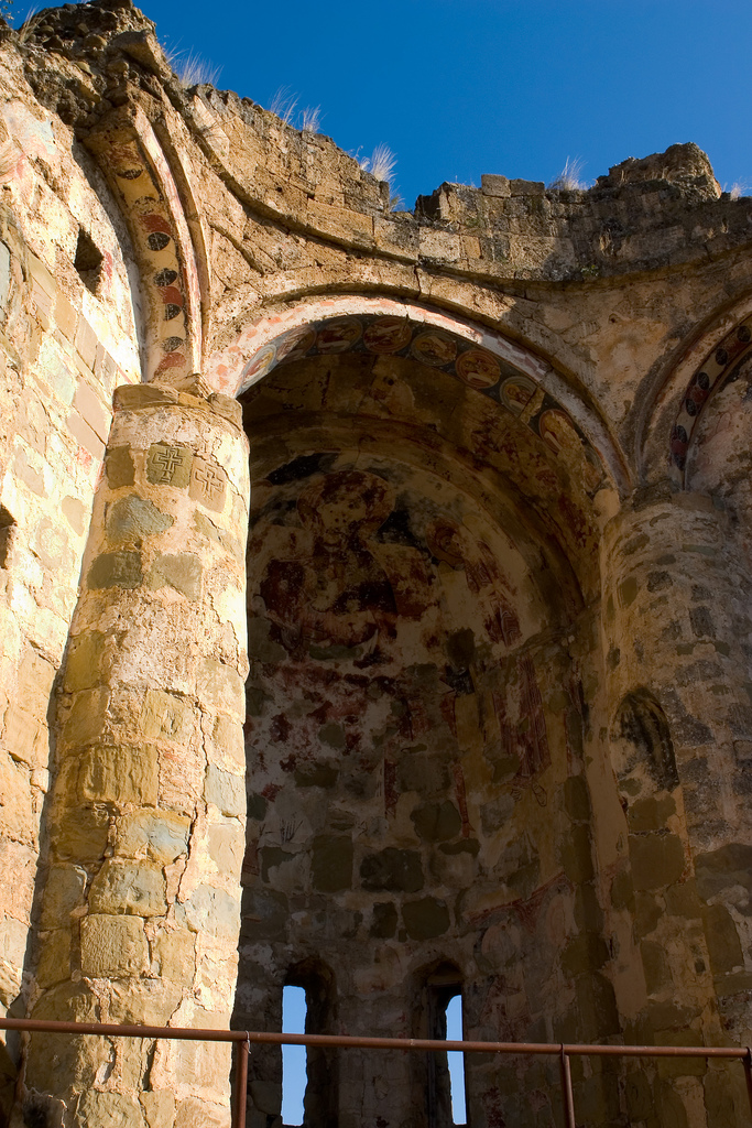 Ninotsminda. being repaired soon.